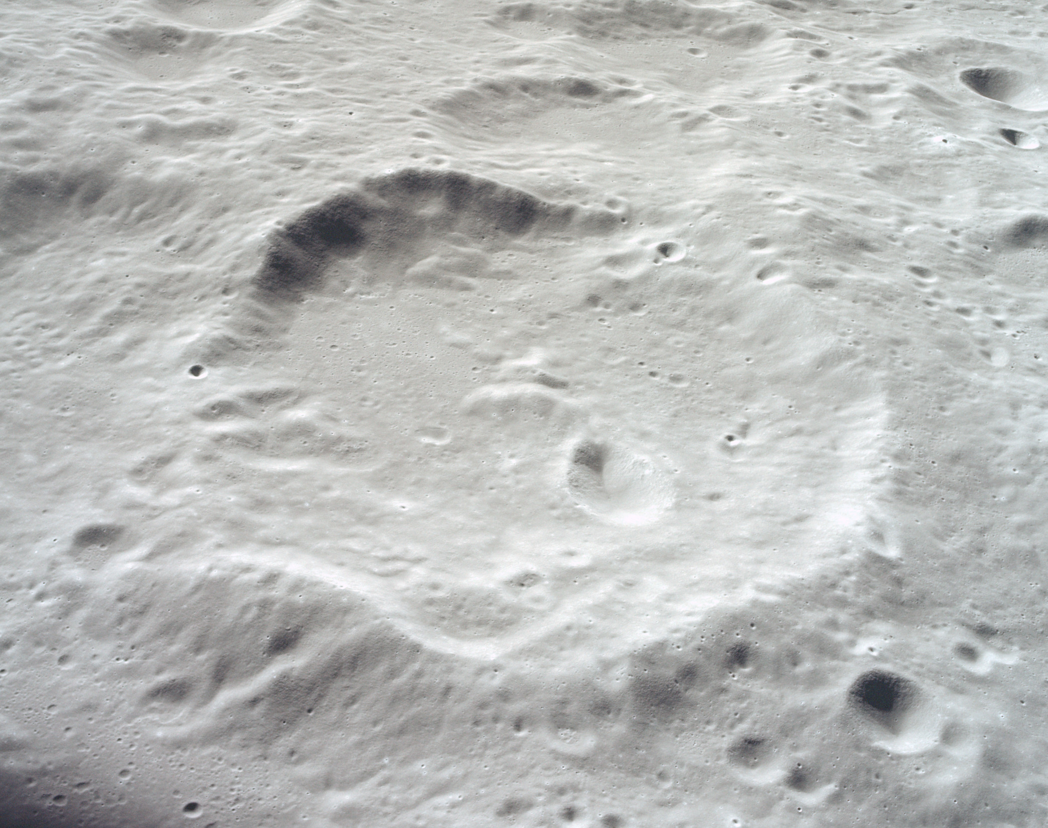 Oblique view of Racah, on the moon, facing northwest.